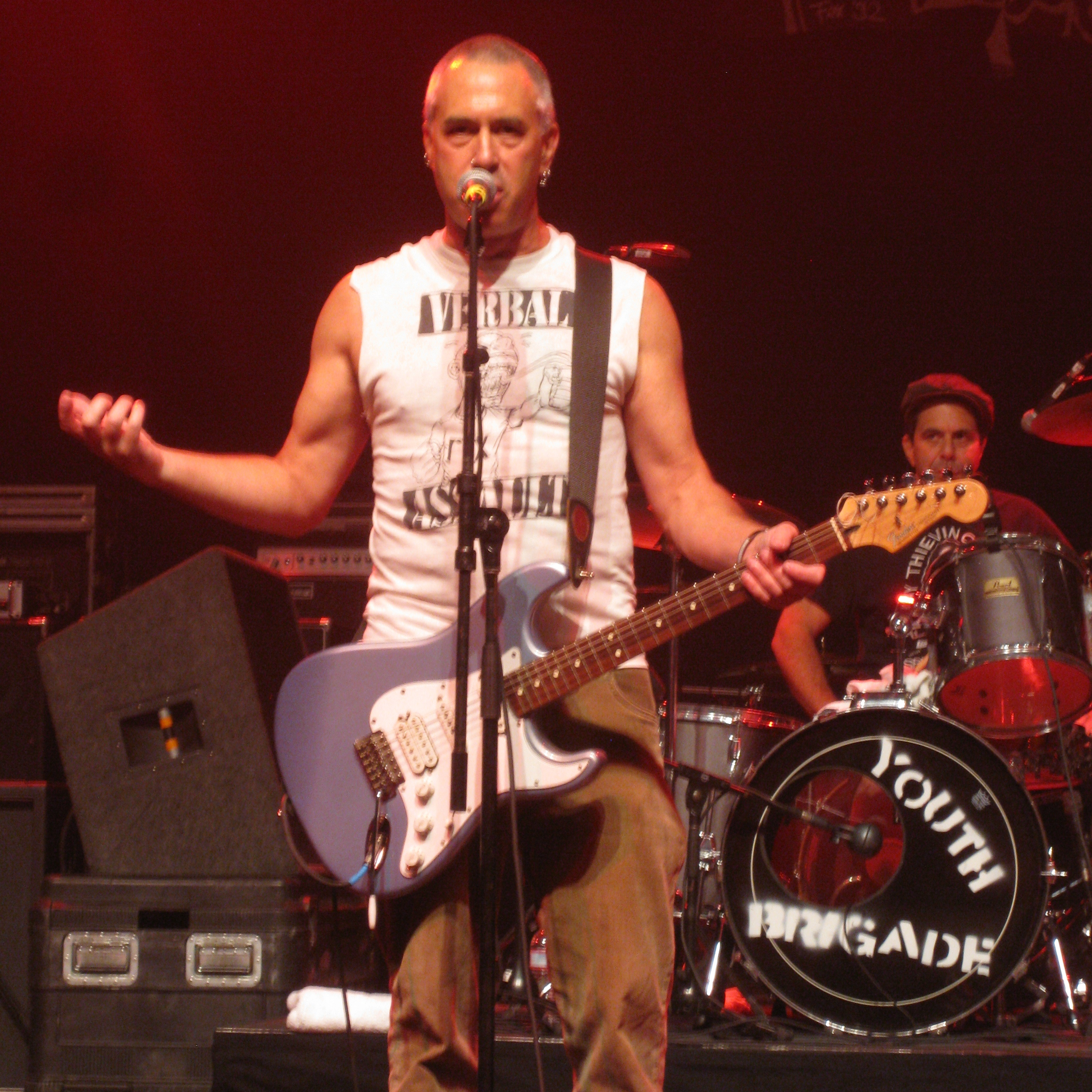 Youth Brigade performing December 17, 2011 at the Santa Monica Civic Auditorium in Santa Monica, California as part of the GV30 event, showing singer/guitarist Shawn Stern (center) and his brother, drummer Mark Stern (right).